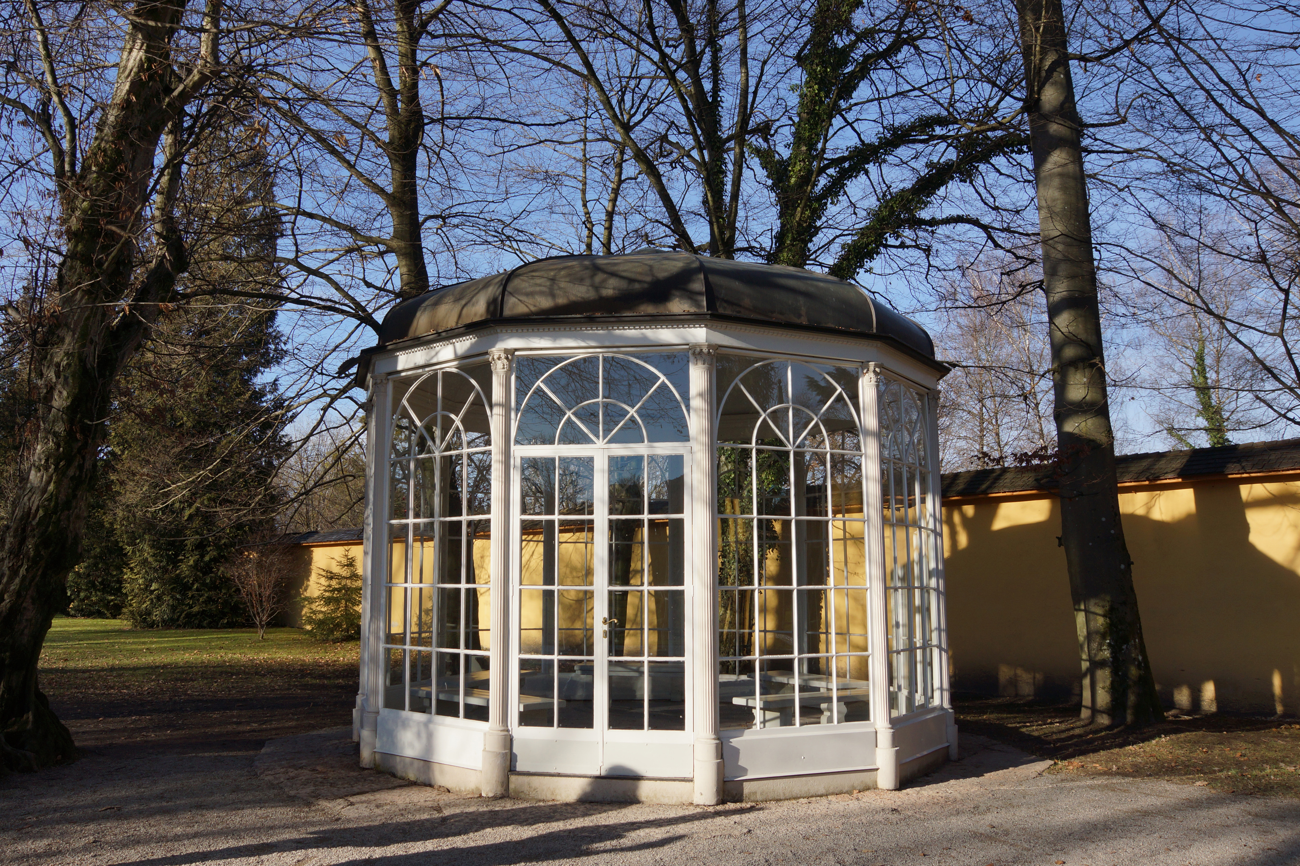 The Sound of Music gazebo at Schloss Hellbrunn, Salzburg, Austria